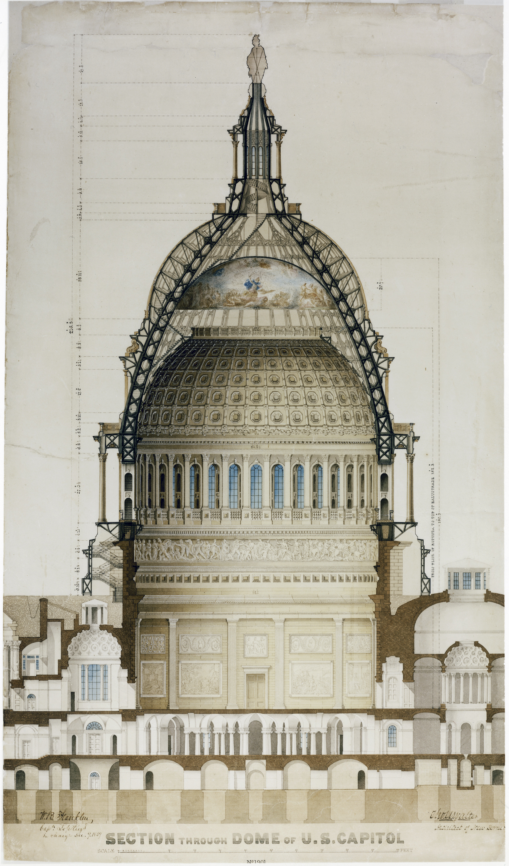 Cross-section drawing by Thomas U. Walter for the dome of the United States Capitol building, circa, 1859